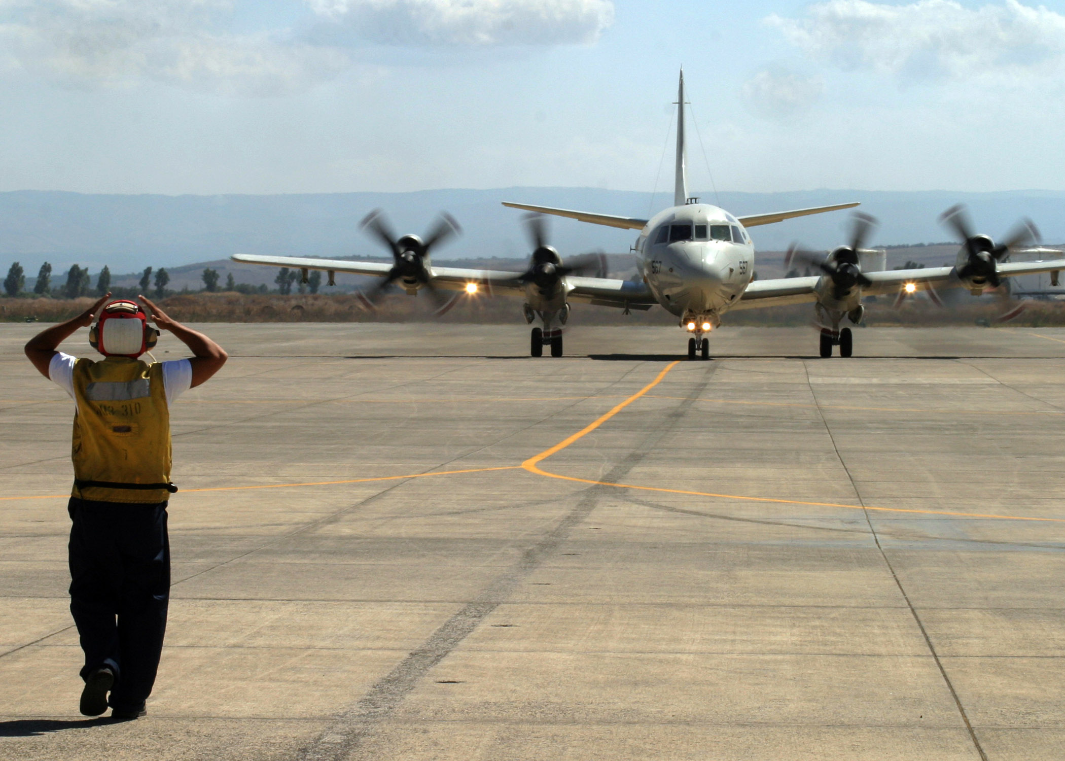 Sigonella, Sicily (Aug. 23, 2006) - Aviation Ordnanceman 3rd Class Giancarlo Rosasarias of Los Angeles, Calif., directs the taxi pilot to straighten his direction of movement in order to properly park a P-3C Orion, after returning from a training flight. Patrol Squadron 16 (VP-16) home ported in Jacksonville, Fla., is forward deployed in support of maritime patrol operations and the global war on terrorism. U.S. Navy photo by Mass Communication Specialist 3rd Class Charles E. White (RELEASED)